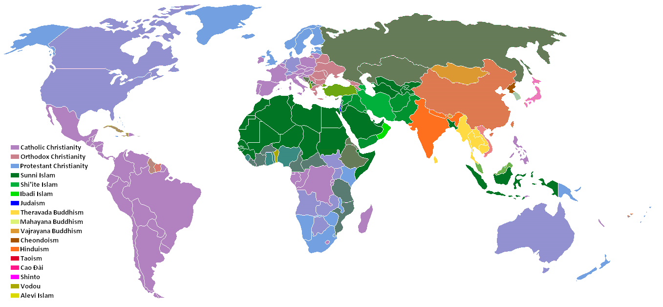 World religious map